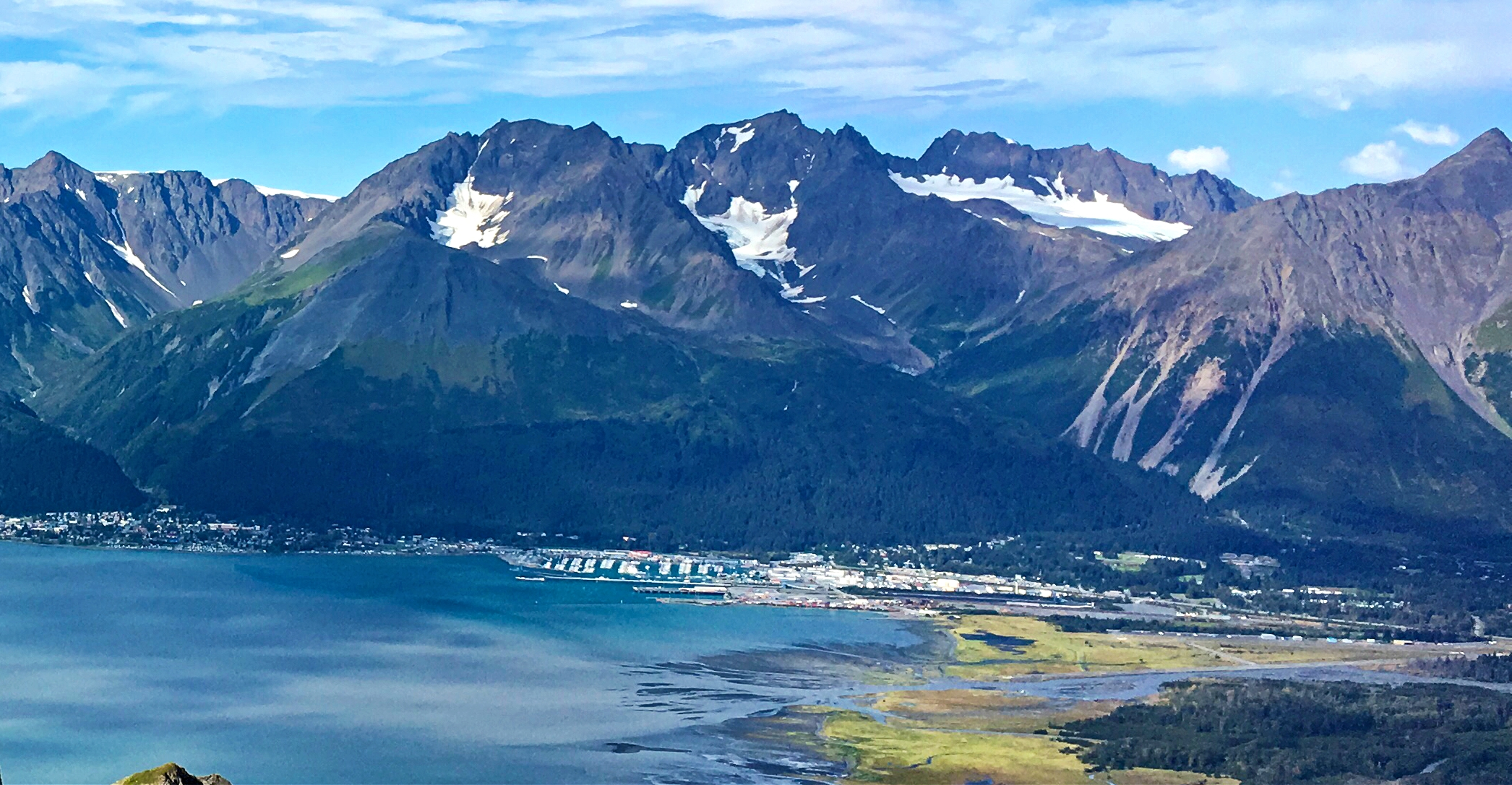 Hiking near Mt. Alice looking west across Resurrection Bay at Seward, Marathon Mountain, Phoenix Peak.